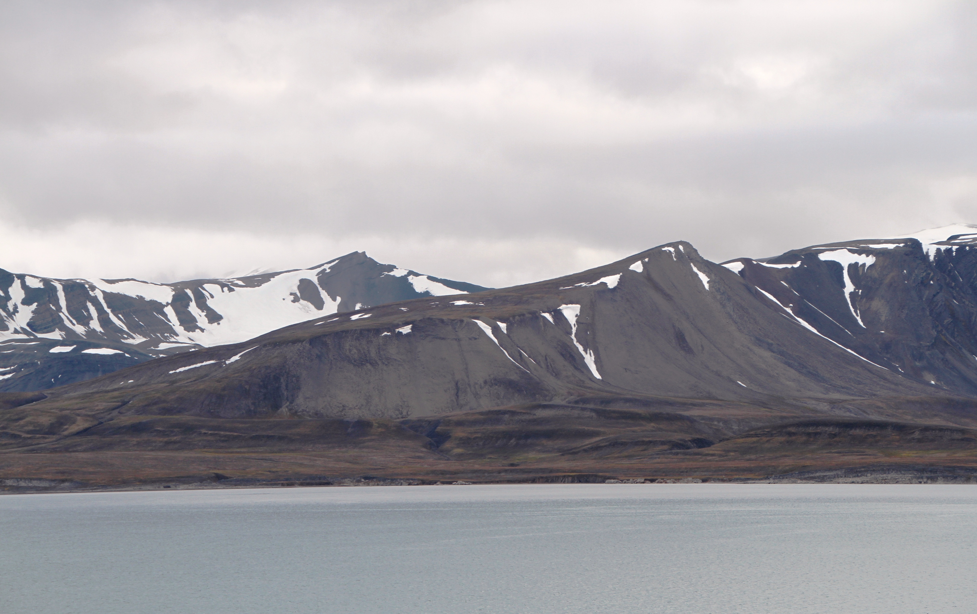 Image from the Green Harbour (Grønfjorden) in western Spitsbergen - seen from the settlement of Barentsburg in the east towards west. The image shows the mountainous areas on the western side of the fjord.